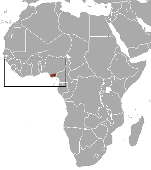 Buettikofer's Shrew (Crocidura buettikoferi) range